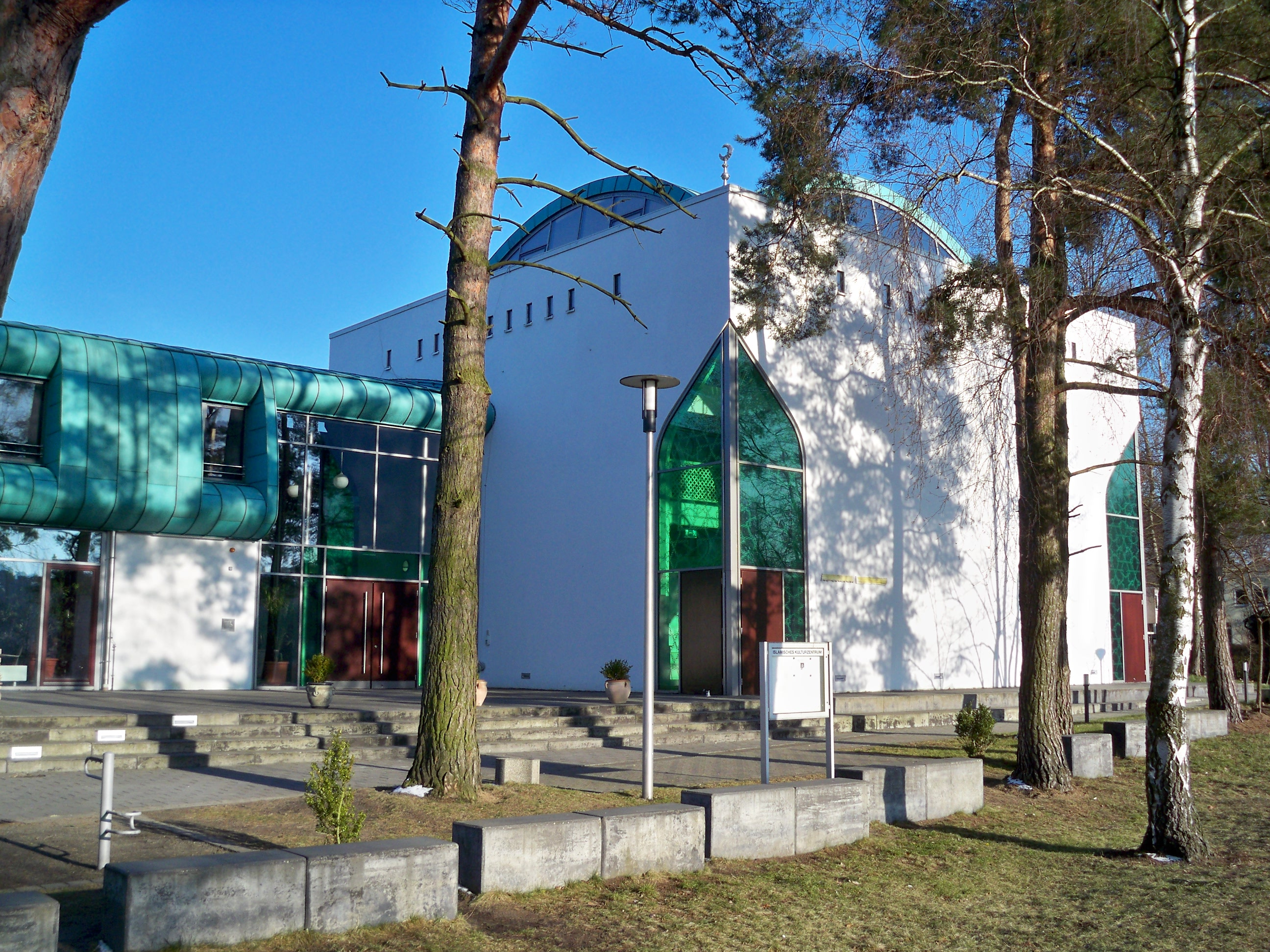 Wolfsburg, Lower Saxony, Al Salam Mosque